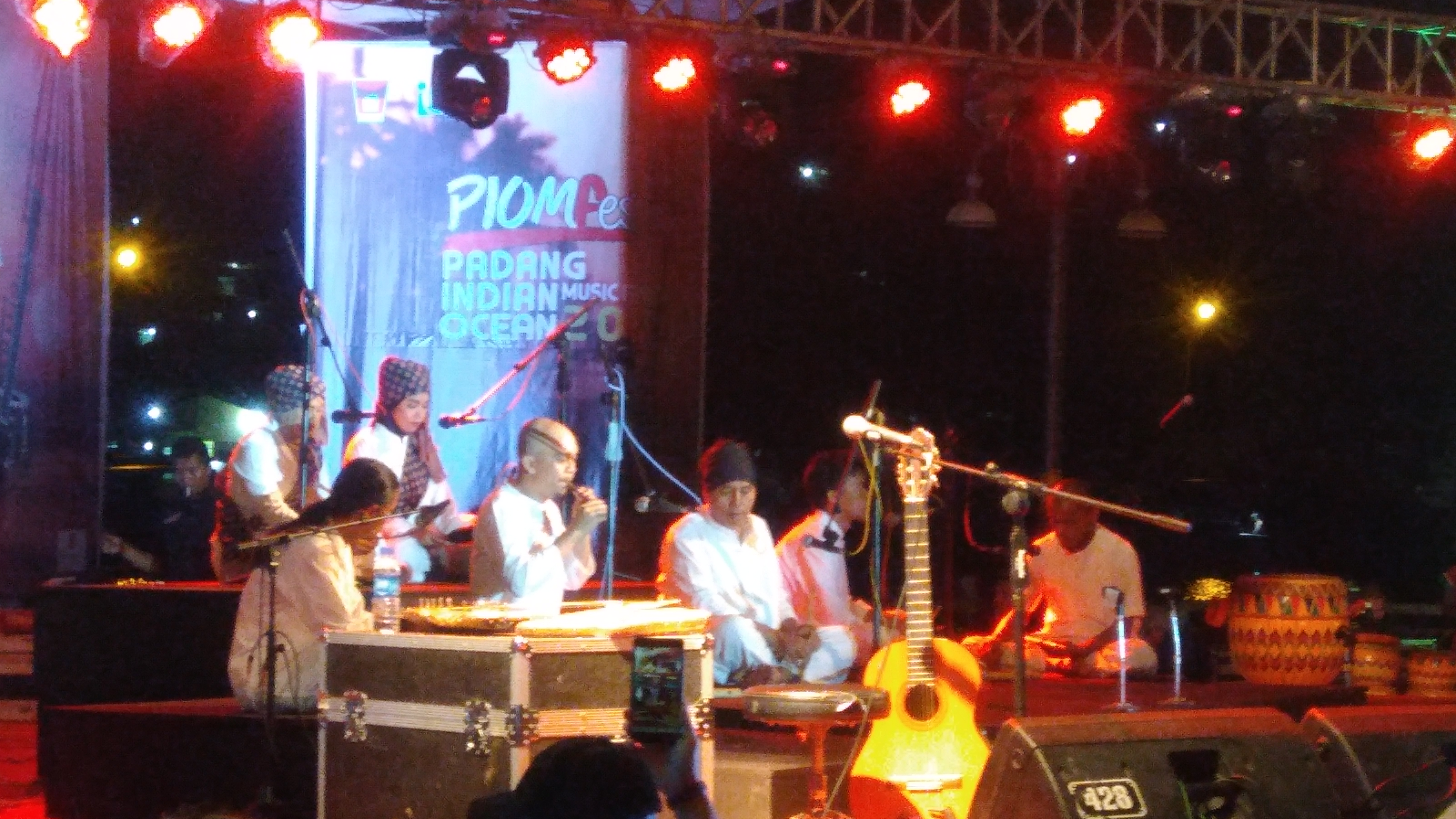 Padang Indian Ocean Music Festival